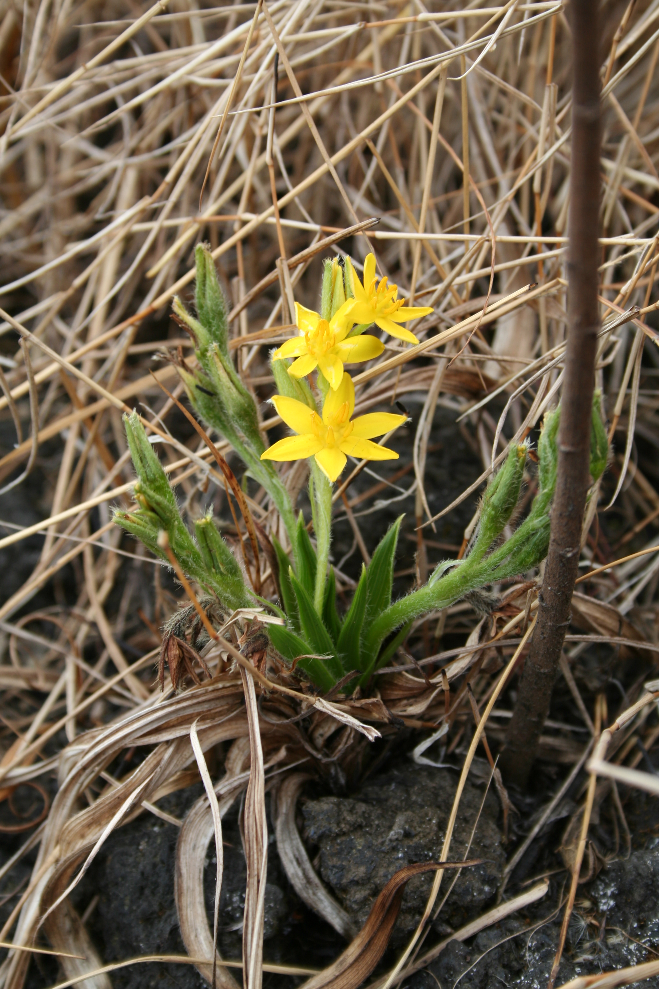 Hypoxis angustifolia, Mt. Cameroon, near Mann's Spring